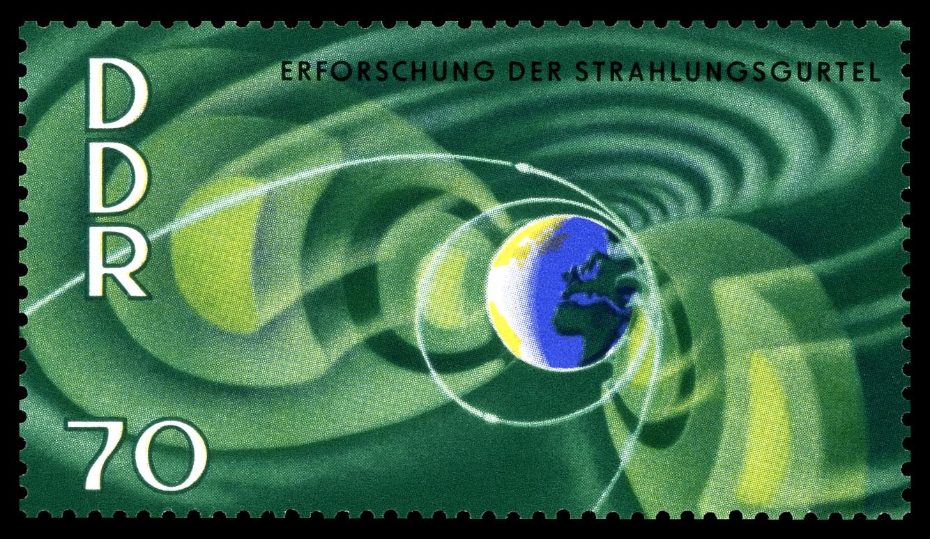 Ausgabepreis: 70 Pfennig First Day of Issue / Erstausgabetag: 29. Dezember 1964 Auflage: 1.700.000 Entwurf: Urbschat Druckverfahren: Offsetdruck Michel-Katalog-Nr: Ländercode-MiNr: 1083 Licensing This file is most likely NOT in the public domain. It has been marked for review, and will be deleted in due course if the review does not find it to be in the public domain.This file was previously considered to be in the public domain as a German stamp; it is possible that it is in the public domain for other reasons, in which case a new rationale will be applied as part of the review process. See below for the previous rationale. Previous public domain rationale, no longer applicable This stamp is in the public domain in Germany because it was released by the postal administration of the German Democratic Republic or the Soviet occupation zone (Deutschen Post der DDR) whose legal successor is the Federal Republic of Germany. Thus it is an official work according to German copyright law (§ 5 Abs. 1 UrhG).